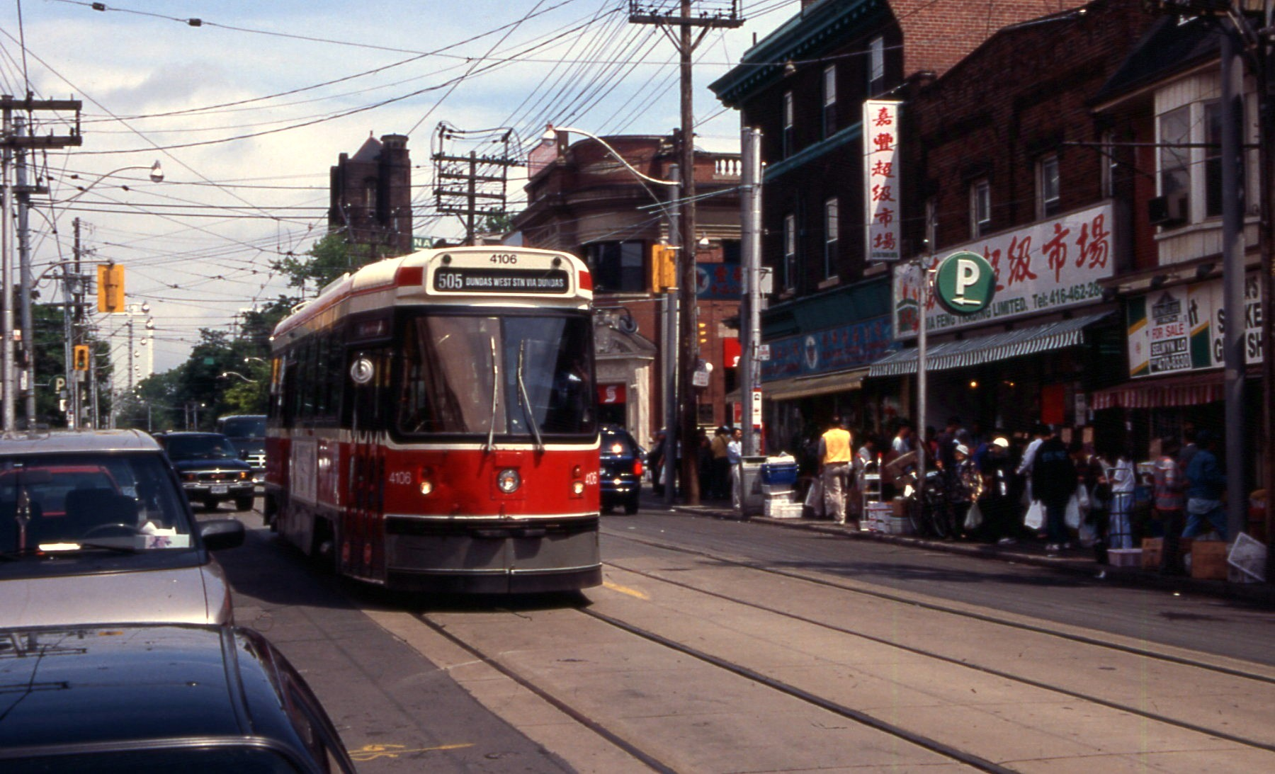 20020615 07 TTC CLRV Broadview Ave. @ Gerrard St.